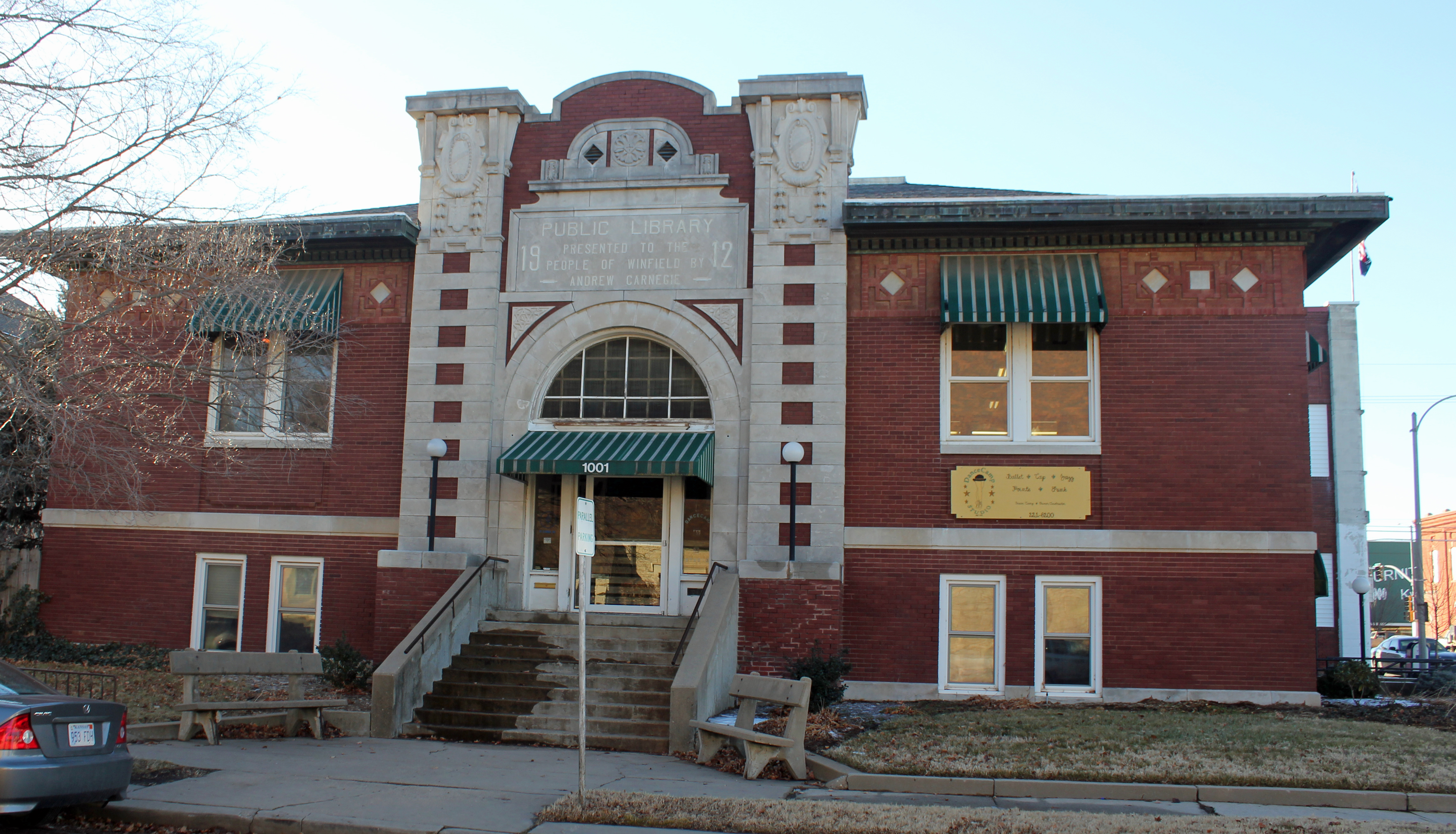 The Winfield Public Carnegie Library, located at 1001 Millington Street in Winfield, Kansas. The property is listed on the National Register of Historic Places.